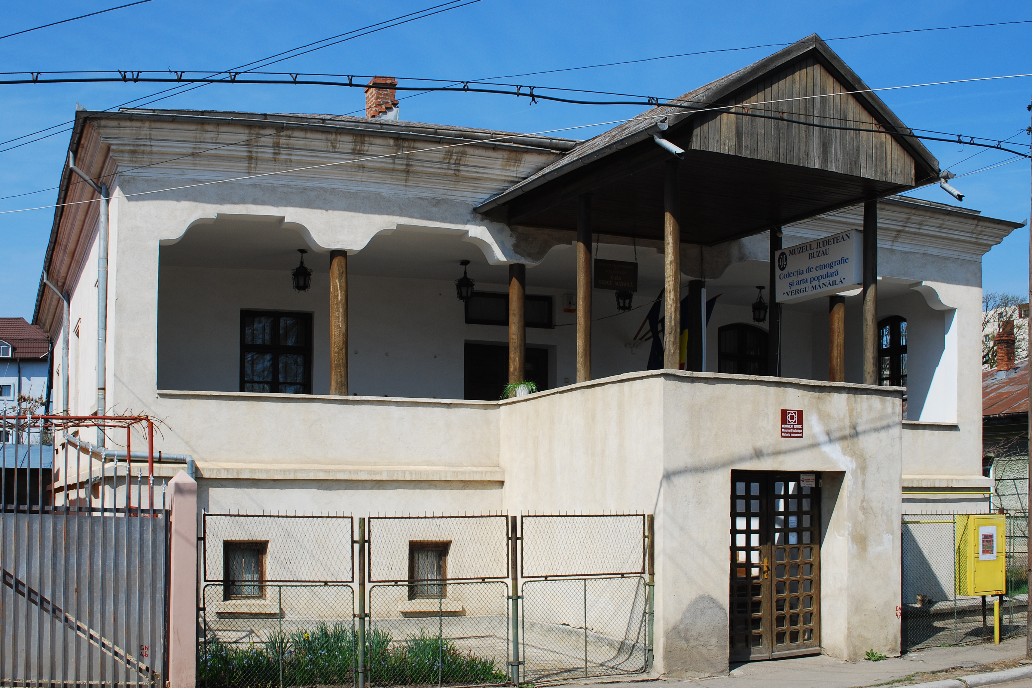 The Vergu-Mănăilă house, the oldest building in Buzău, Romania.